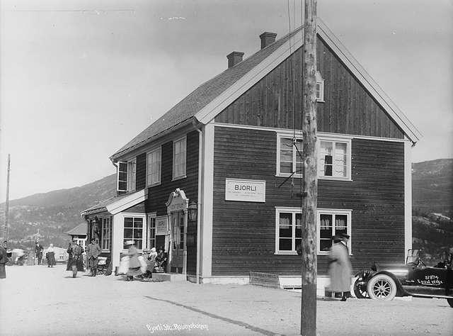 Bjorli railway station on Raumabanen, Rauma, Norway